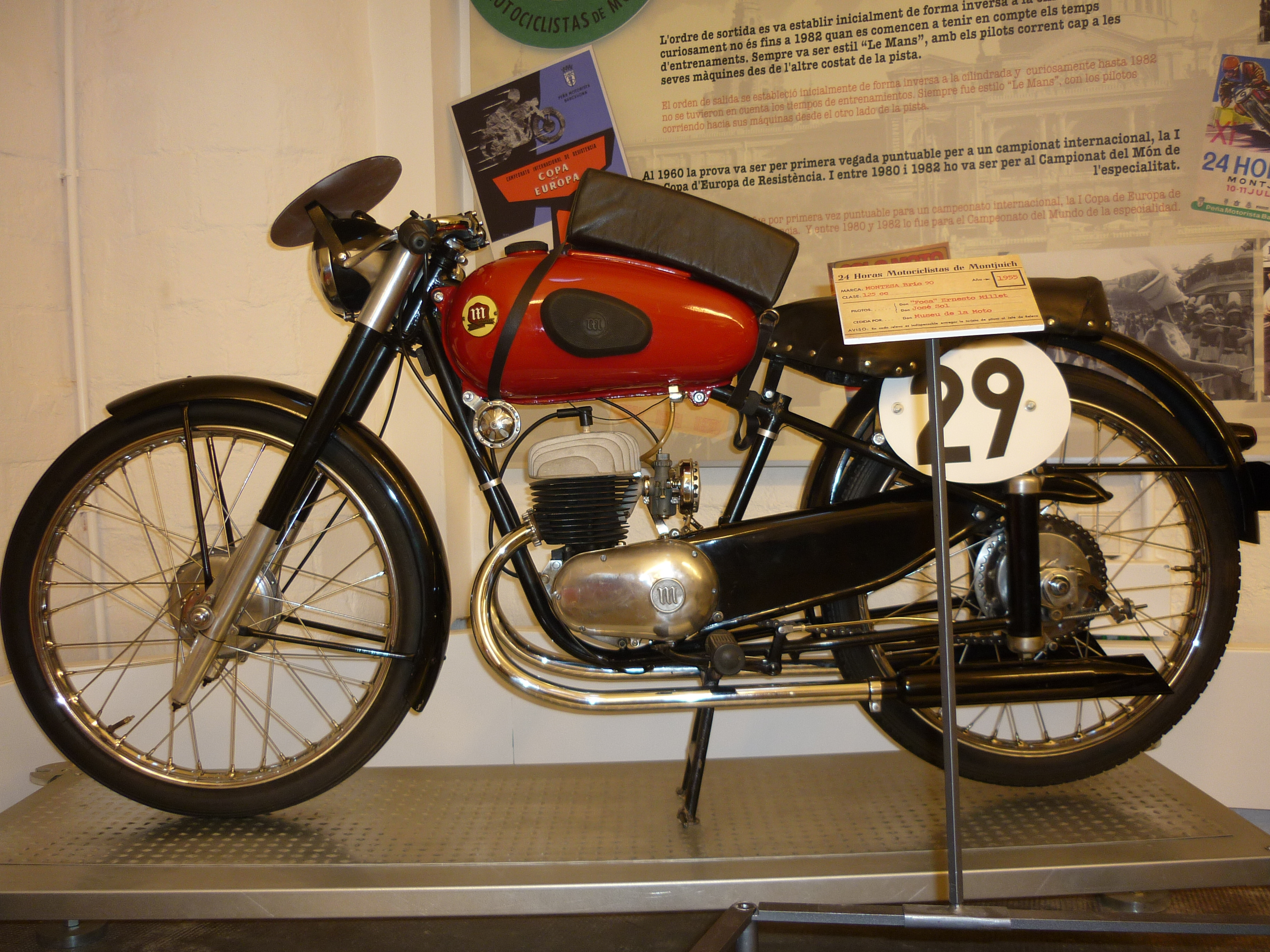 Montesa Brio 90 125cc. This bike was ridden by Ernest Millet aka "Foca" and Josep Sol at I 24 Hours of Montjuïc, on 1955